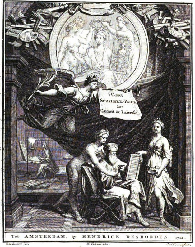 Title page of Gerard de Lairesse's book called Groot schilderboek, waar in de schilderkonst in al haar deelen grondig werd onderweezen, ook door redeneeringen en printverbeeldingen verklaard ; met voorbeelden uyt de beste konst-stukken der oude en nieuwe puyk-schilderen, bevestigd : en derzelver wel- en misstand aangeweezen, Volume 1 (Dutch). This title page engraving was drawn by De Lairesse himself, and engraved by Philip Tideman.